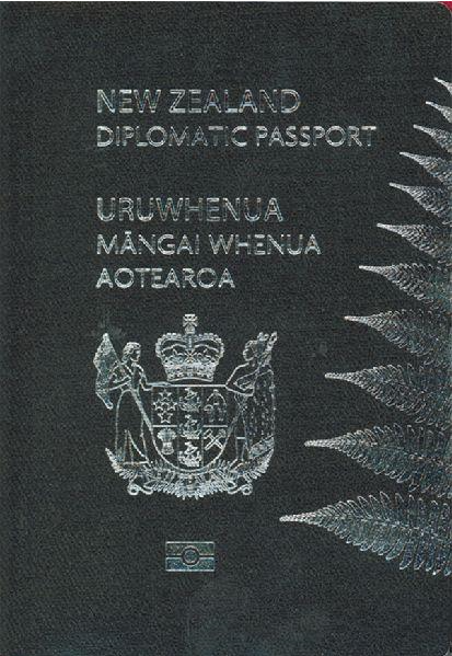 Front cover of New Zealand Diplomatic Passport